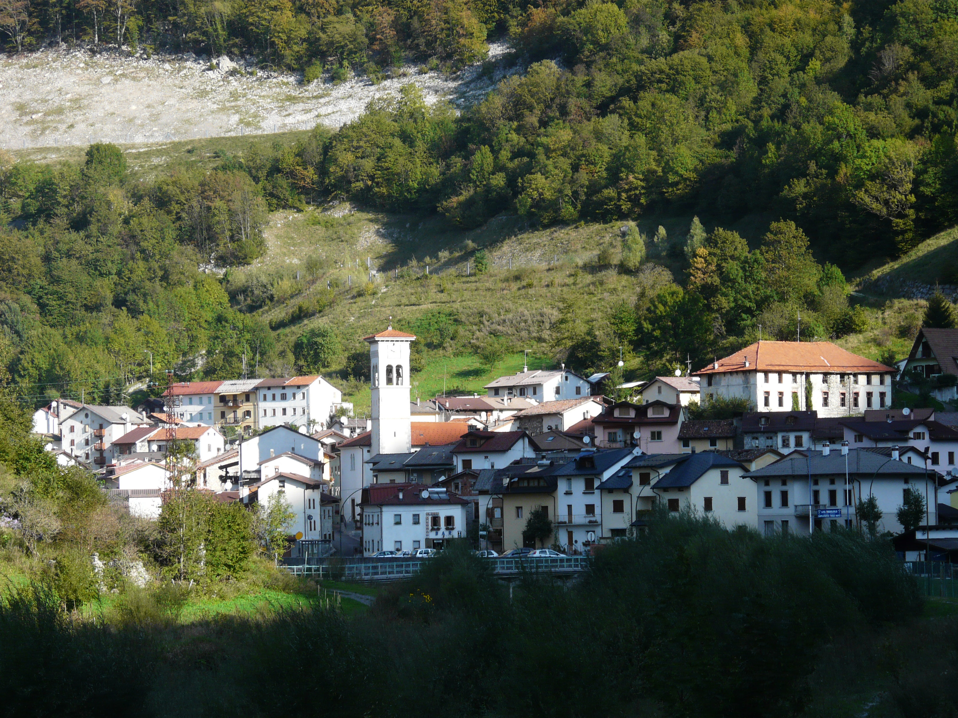 Timau in the Carnic Alps, situated at 830 meters above sea level.